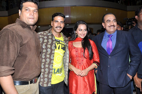 Dayanand Shetty,Akshay Kumar,Sonakshi Sinha,Shivaji Satyam promote 'Rowdy Rathore' on the sets of CID